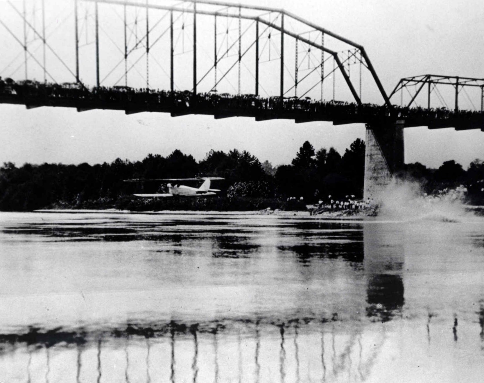 This photo was taken on August 17, 1923 at the opening of the Buster Boyd Bridge over Lake Wylie, between Lake Wylie, South Carolina and Steele Creek, North Carolina.